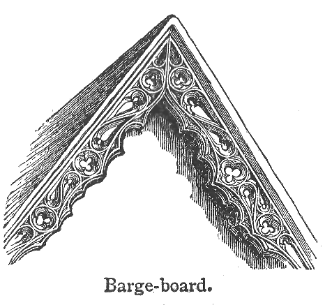 Illustration from 1908 Chambers's Twentieth Century Dictionary. Barge-board, n. a board extending along the edge of the gable of a house to cover the rafters and keep out the rain.